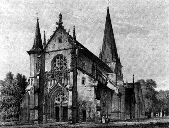 Saint Tanche church in Lhuitre (Aube), France